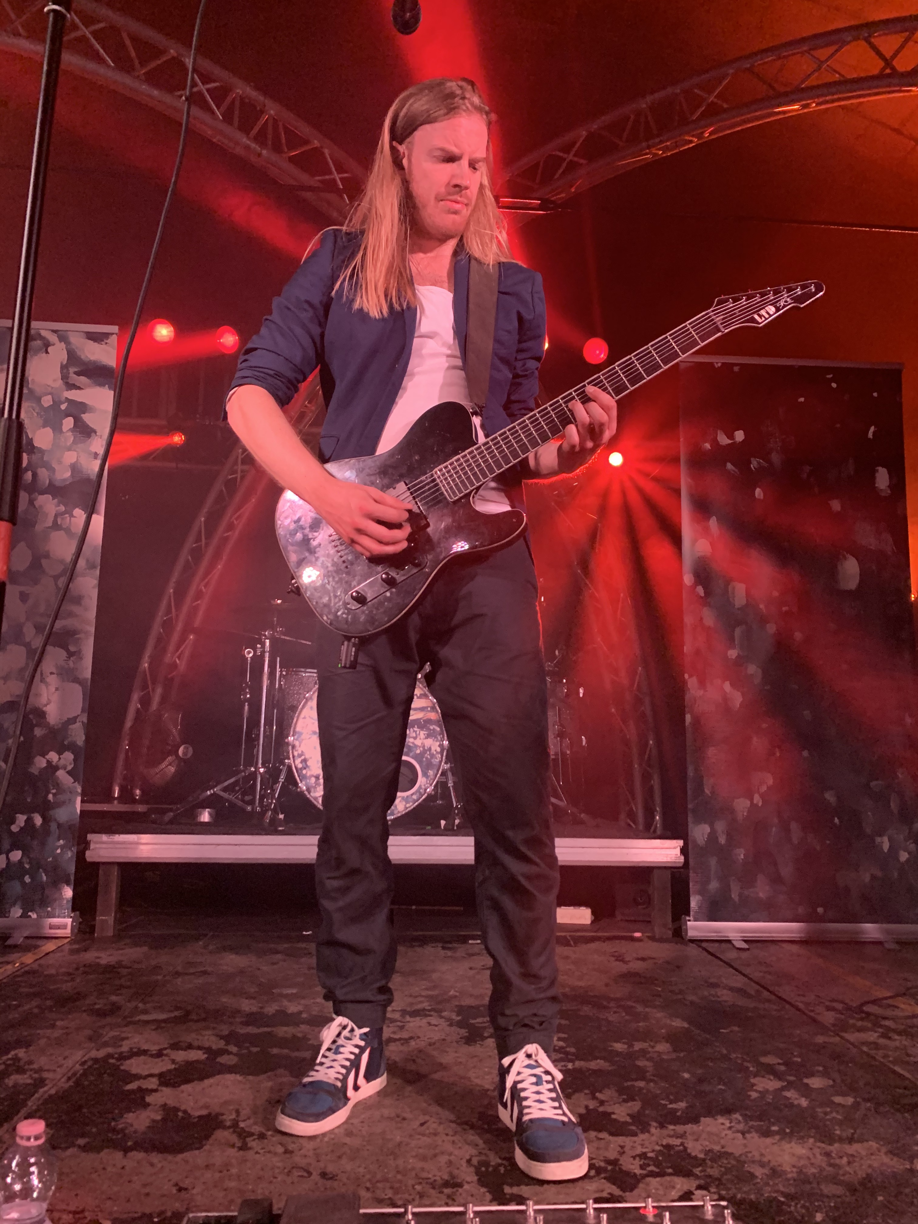 Vola's frontman Asger Mygind live at Circolo Mu in Parma on September 21st, 2019